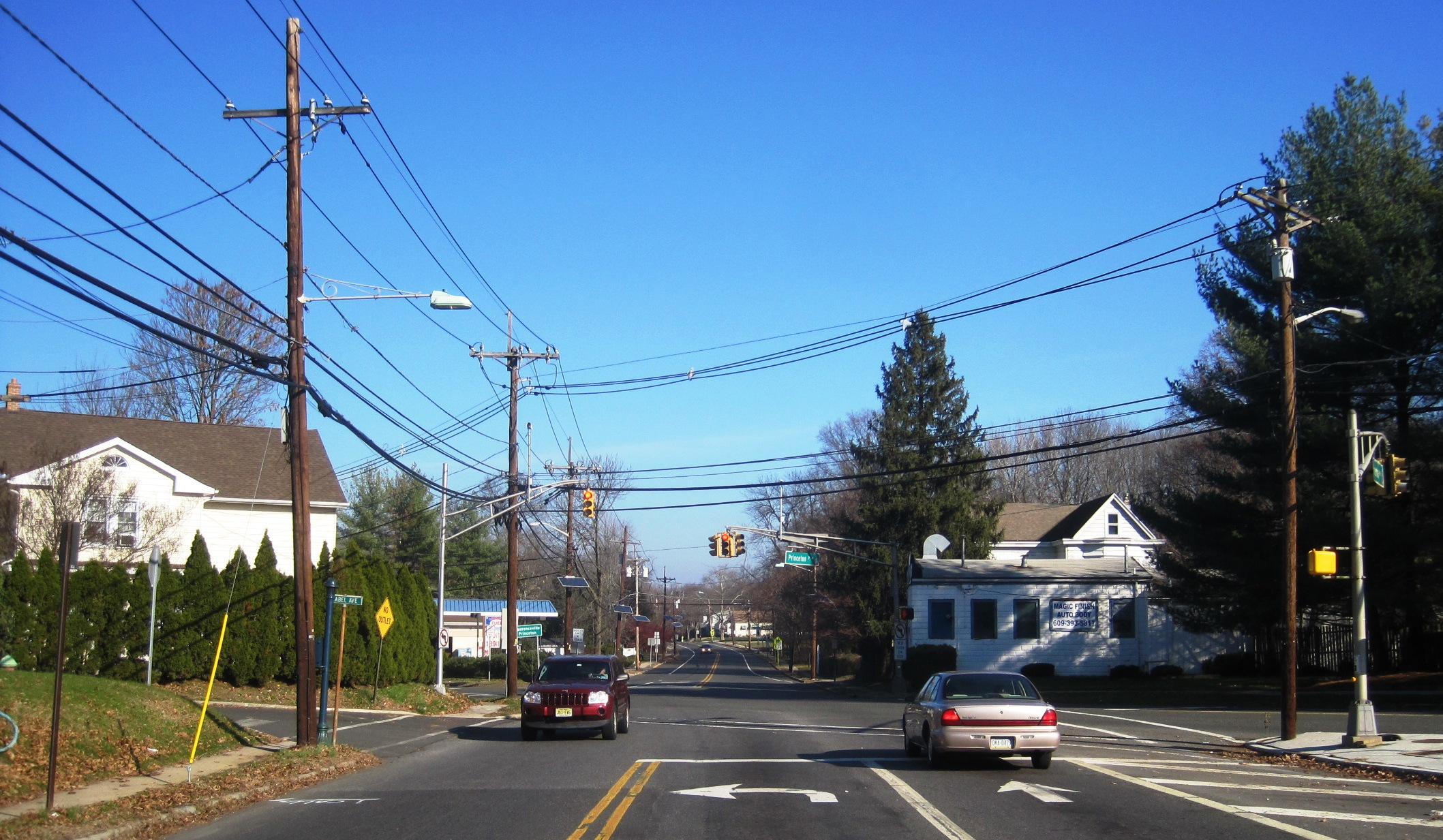 Photo of Harneys Corner, New Jersey, an unincorporated community within Lawrence Township, Mercer County. Photo taken along northbound Princeton Avenue (County Route 583) at U.S. Route 206 (Lawrence Road).